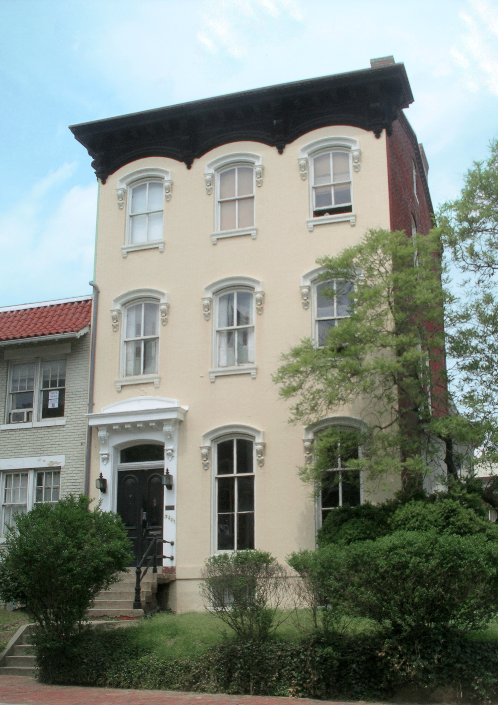 The Delta Phi Epsilon House (also known as the Alpha Chapter House; historically known as the William E. Seymour House), located at 3401 Prospect Street, N.W., in the Georgetown neighborhood of Washington, D.C. Built in 1870 by merchant William E. Seymour, the brick, Italianate-style row house was purchased by Delta Phi Epsilon in 1940. The building is designated as a contributing property to the Georgetown Historic District, a National Historic Landmark listed on the National Register of Historic Places in 1967.